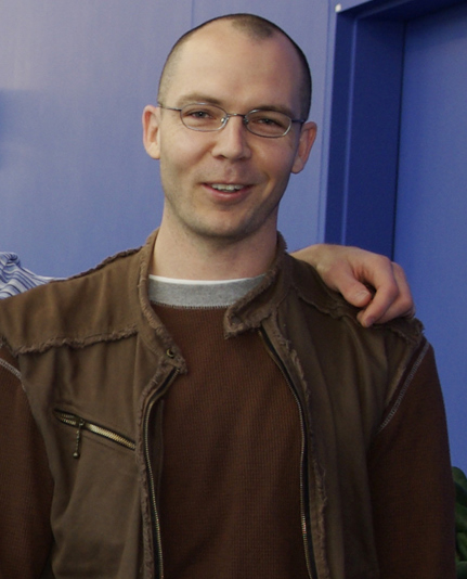 Jonathan Blow at the Montreal International Games Summit in 2008.